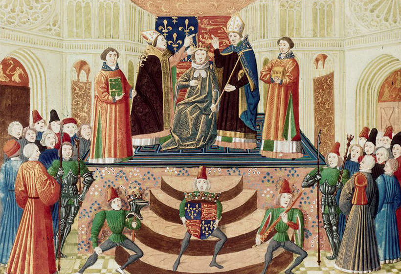 Coronation of Henry IV, King of England. (British Library, Harley 4380 f. 186v)